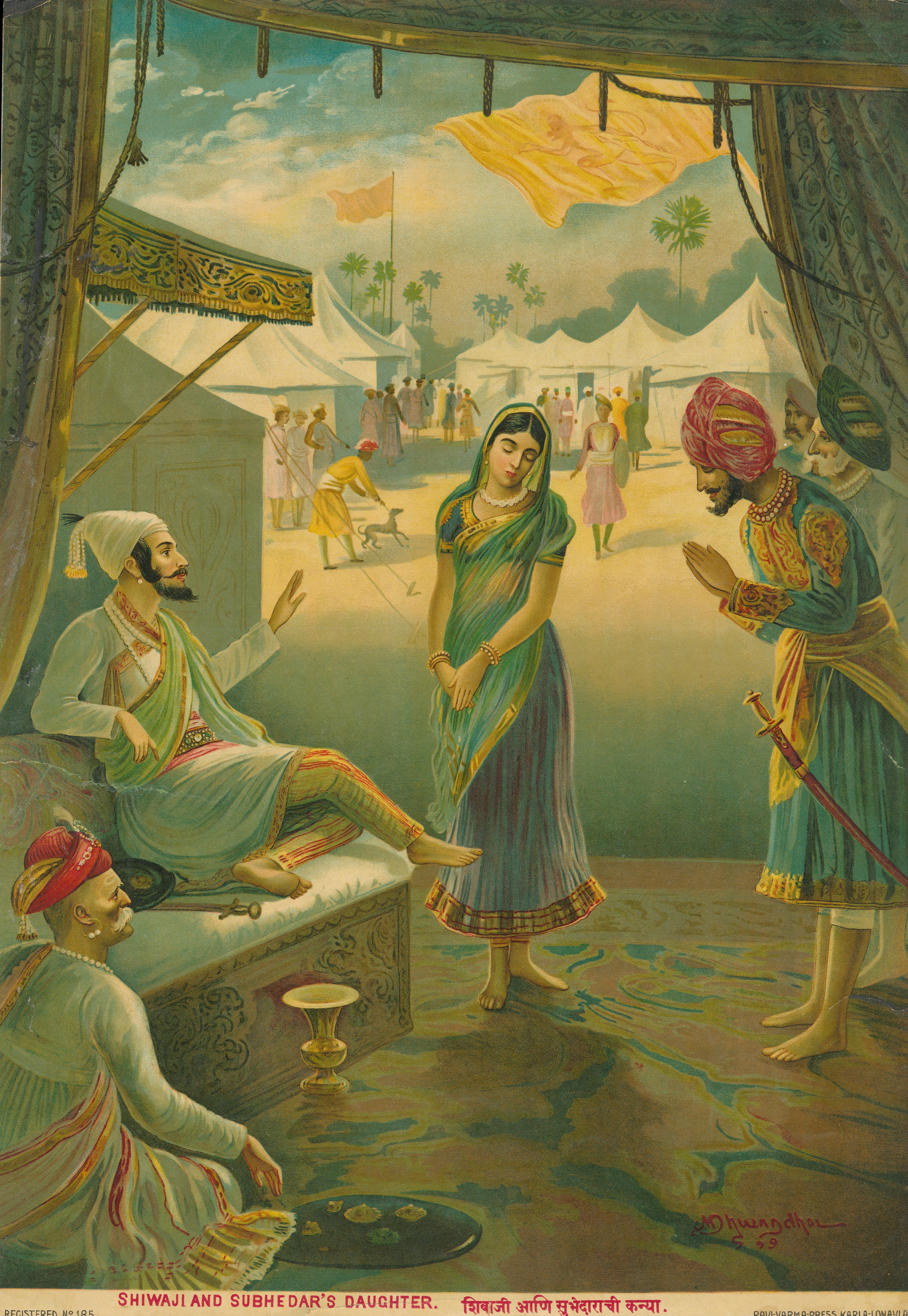 Shivaji and Subedar's Daughter M. V. Dhurandhar